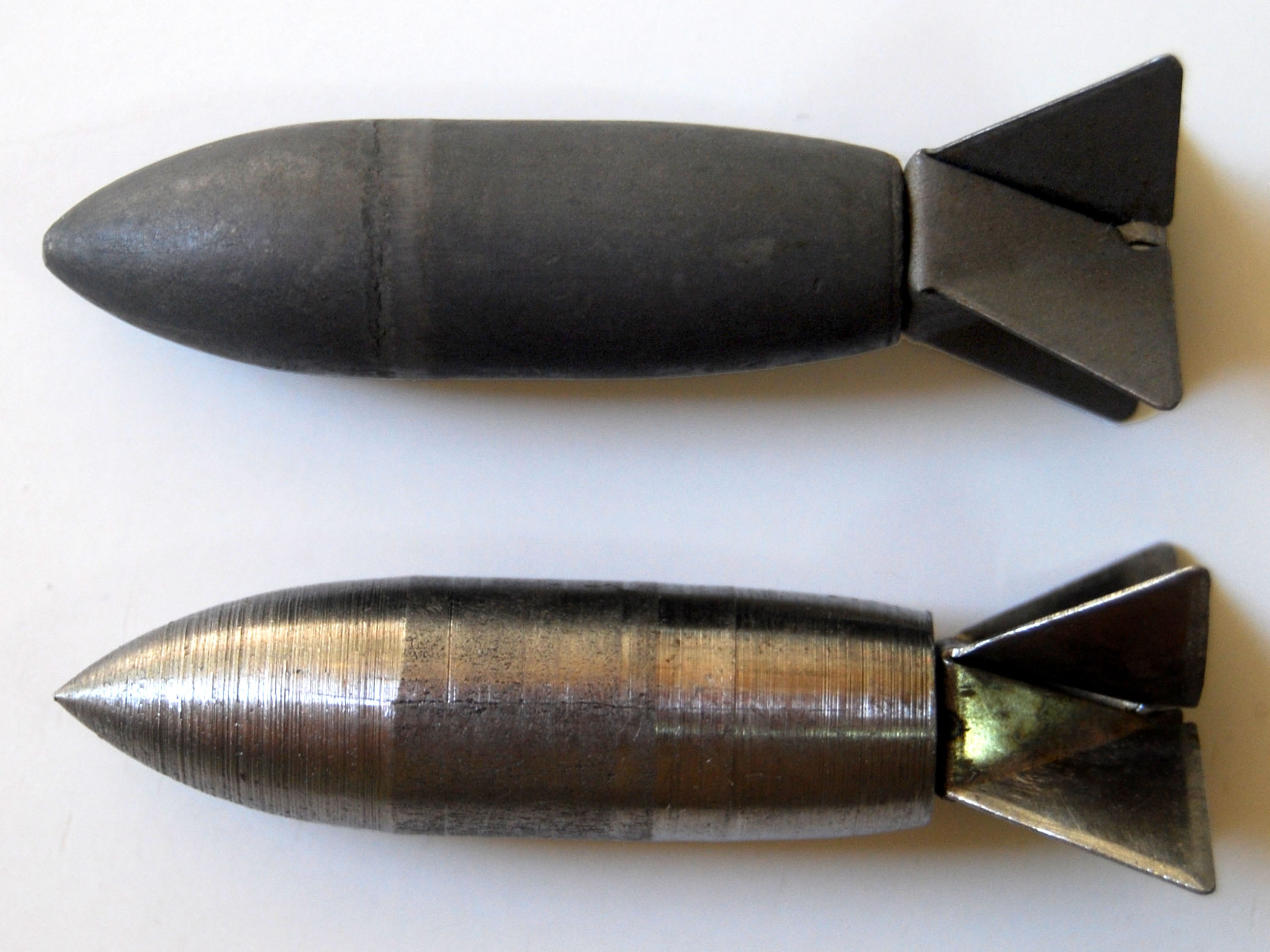 Photograph of 2 types of Lazy Dog Bombs: The top image shows an early WWII design which was forged from steel and given a Parkerized finish; the bottom image shows a later design which was manufactured on high-speed lathes from round steel rod stock and coated with cosmoline to prevent rusting during transport. Both had stamped and formed sheet metal fins spot welded to the tail end.